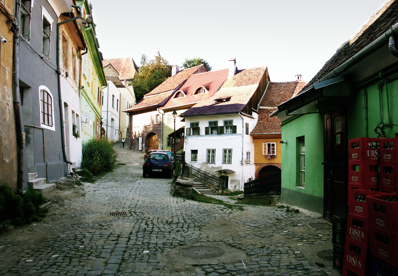 Street in Sighisoara